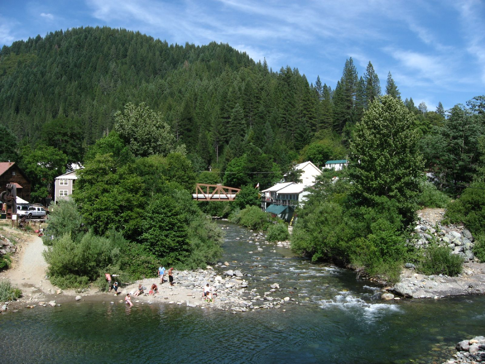 Photo showing the confluence of Downie River and North Yuba River at Downieville, CA